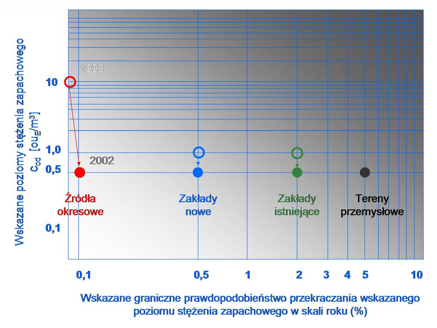 Odour Quality Standards of Air (N)